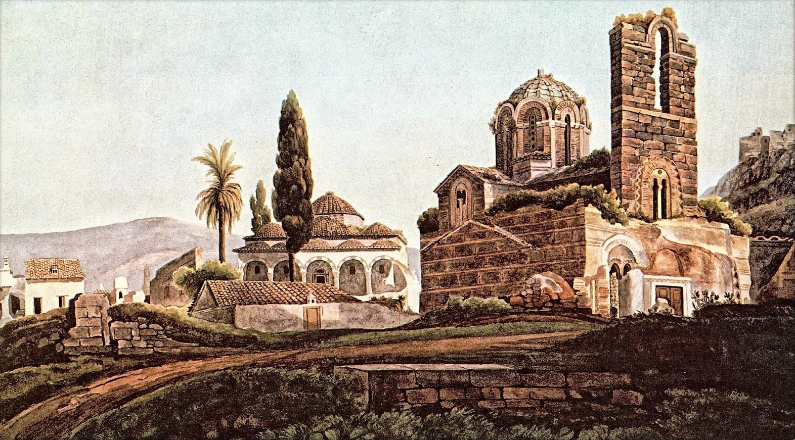 The Fethiye Mosque and the Church of the Taxiarches, Athens